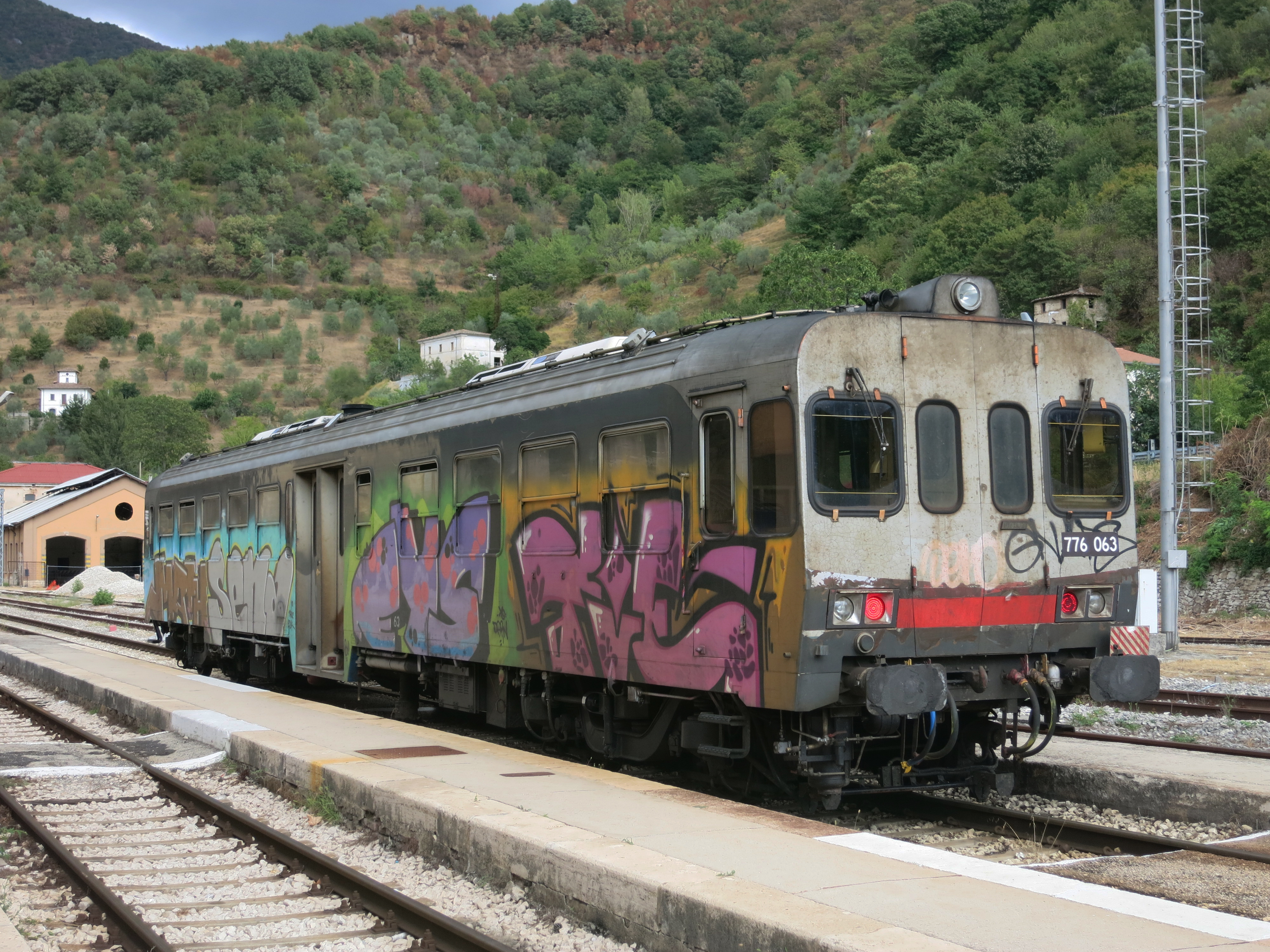 DMU class ALn 776 number 063 owned by Umbria Mobilità stopping in the Antrodoco-Borgo Velino train station (province of Rieti, Lazio, Italy), on the Terni-Rieti-L'Aquila-Sulmona line, while carrying out regional train 21589 from Terni to Antrodoco Centro.